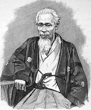 Keisuke Ito